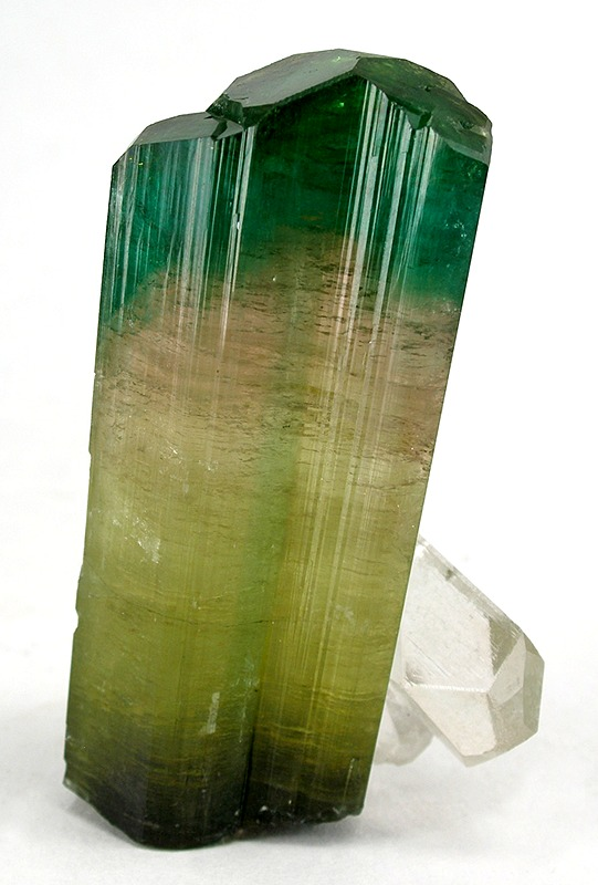 Topaz and elbaite Locality: Darra-i-Pech (Pech; Peech; Darra-e-Pech) Pegmatite Field, Nangarhar (Ningarhar) Province, Afghanistan (Locality at ) Size: small cabinet, 7.5 x 4.5 x 3.7 cm Tourmaline with Topaz What more need be said?! Look at these incredible pics! This topaz is NOT repaired and NOT put on there. Its a natrual doubly-terminated 4 cm topaz hanging off a colorful tourmaline. One of my favorite Afghani combo pieces yet seen!